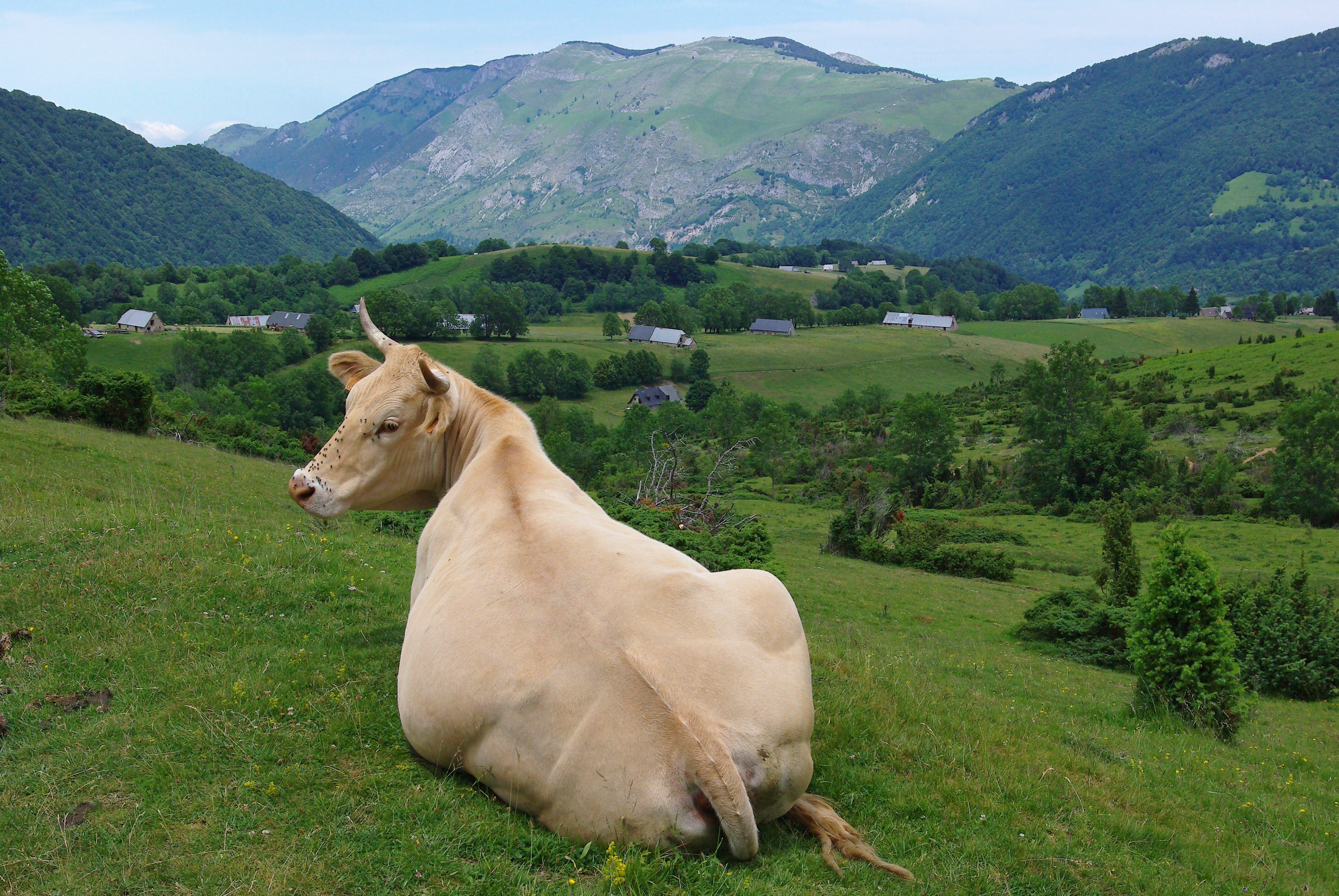 Cow (Bos taurus) "Blonde d'Aquitaine", valley of Campan, Hautes-Pyrénées, France.